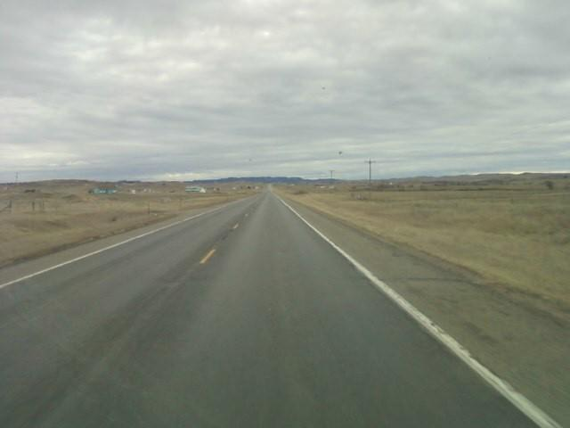 US 212 westbound a couple miles east of Busby, Montana.